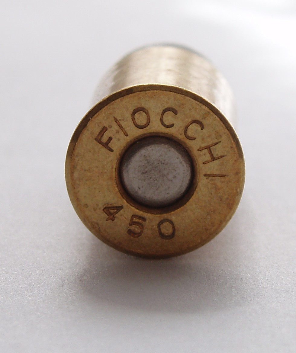 .450 Corto revolver cartrdige. Lead round bullet. Manufacturer: Fiocchi.